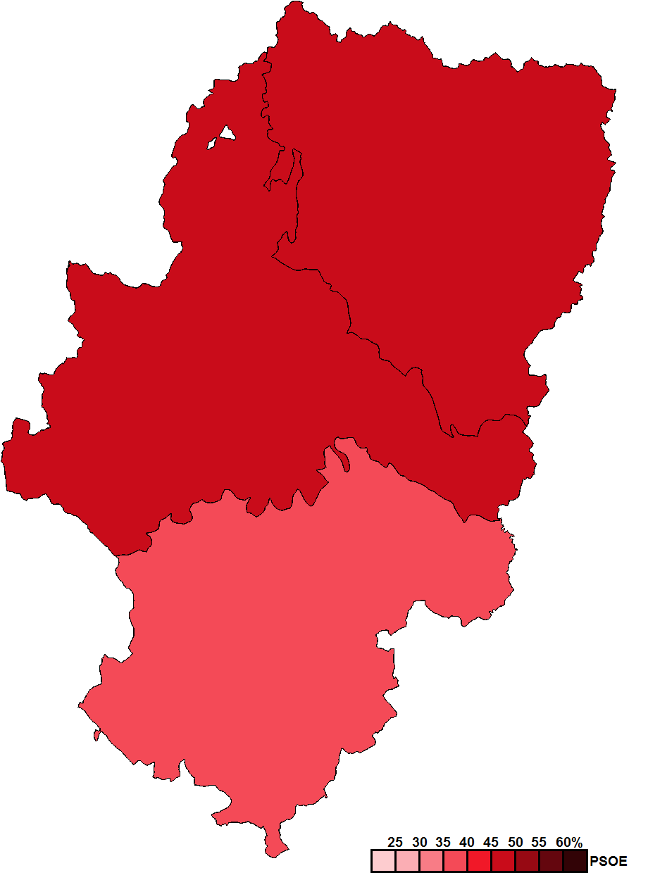 Provincial results for the 1983 Aragonese regional election.